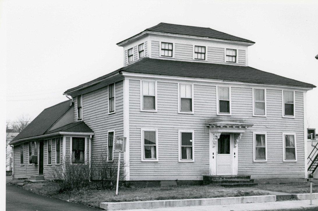 First Parsonage for Second East Parish Church, Attleboro, Massachusetts. This building has been demolished.